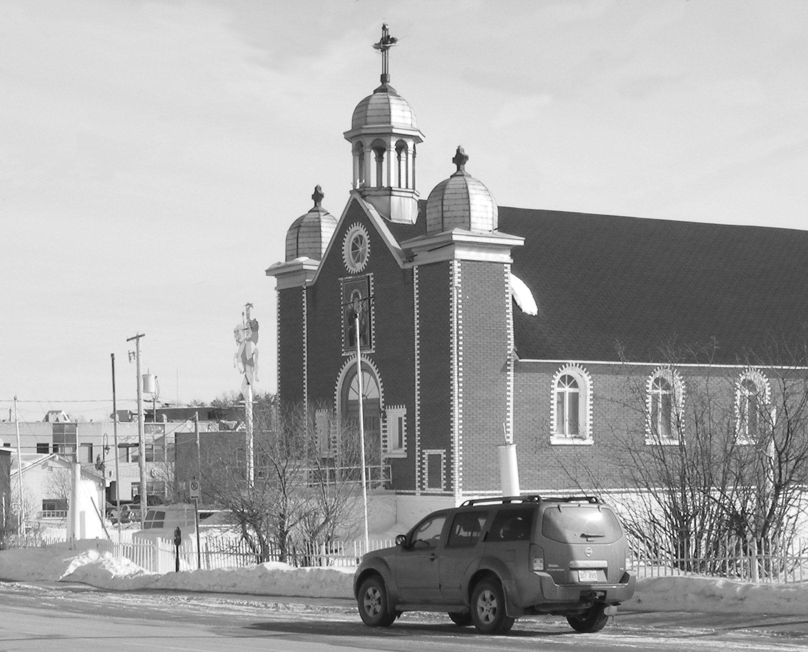 Ukrainian church in Val-d'Or city center, Canada